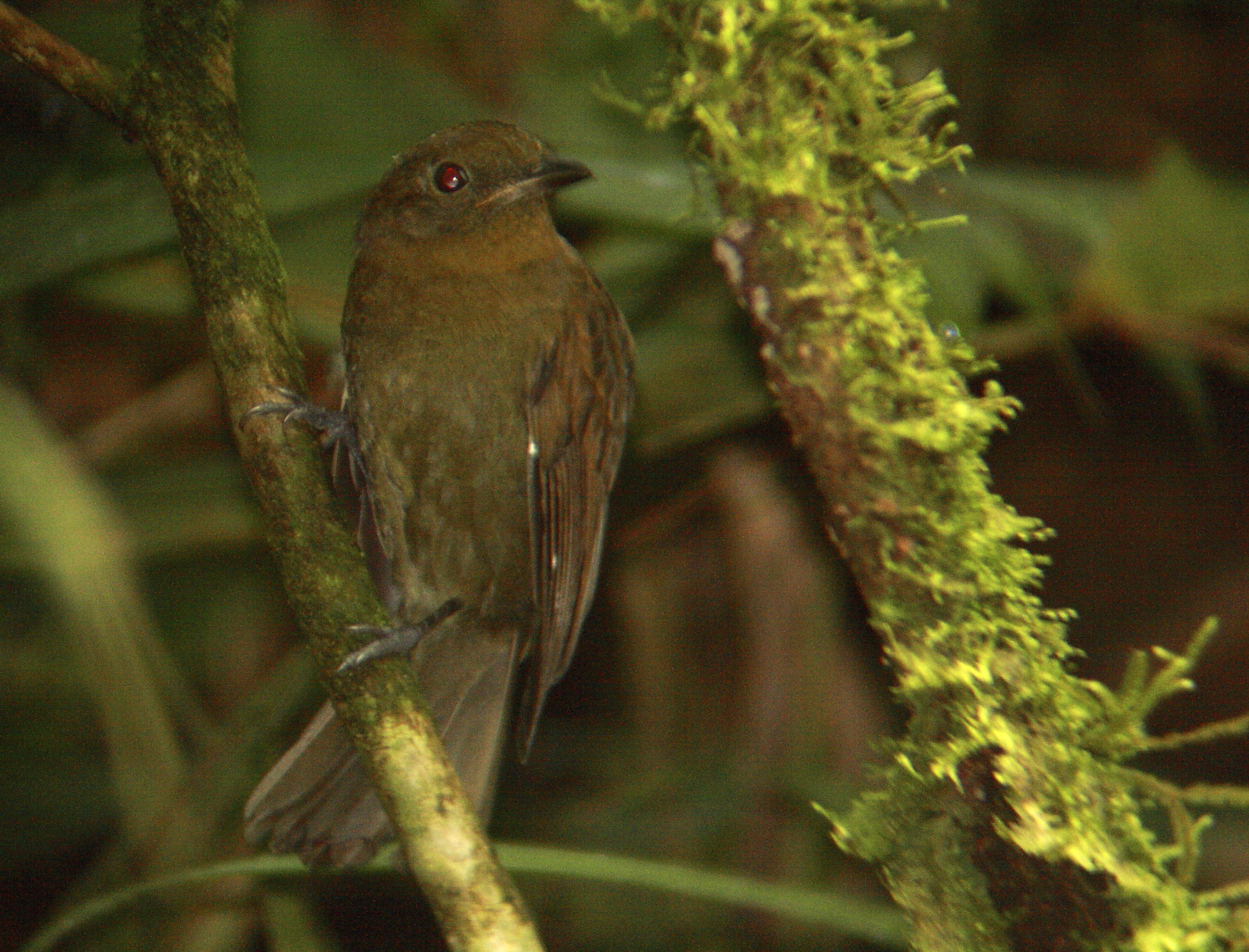 Schiffornus turdina complex, from Panama